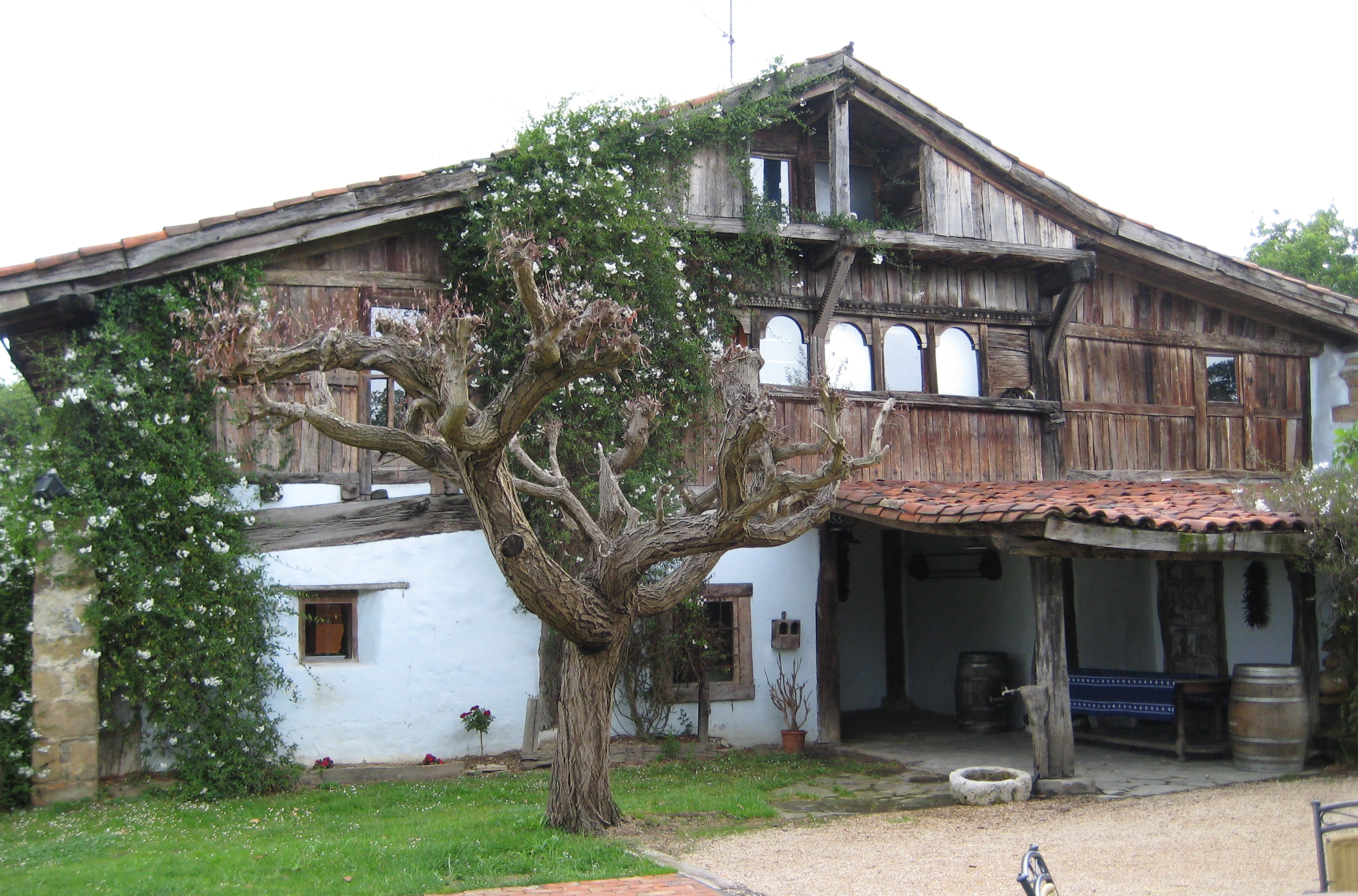 Main façade of the Bengoetxe Farmahouse (currently Aspaldiko Restaurant, in Lujua - Loiu.